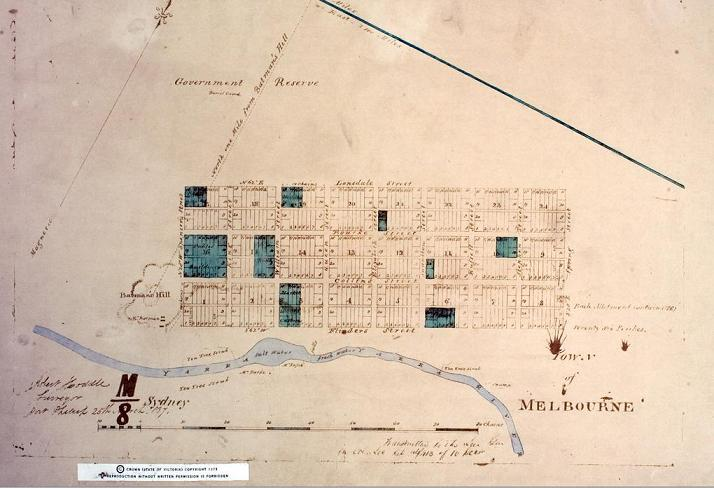 Robert Hoddle's survey of the town of Melbourne in 1837 Sydney map M/8 (Victorian Public Record Office VPRS 8168/P2 Historic Plan Collection, Unit 6167, Sydney M8)